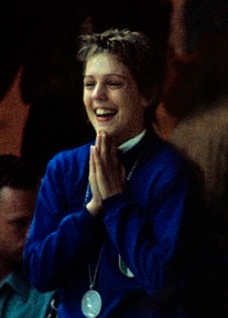 The Italian swimmer Novella Calligaris (on the left) on the Olympic podium together with the Australian Shane Gould (first, in the centre with the yellow bath robe) and the Federal German Gudrun Wegner (third); the young swimmer just won the silver medal at the 20th Olympic Games. Munich (Federal Germany), 1972.